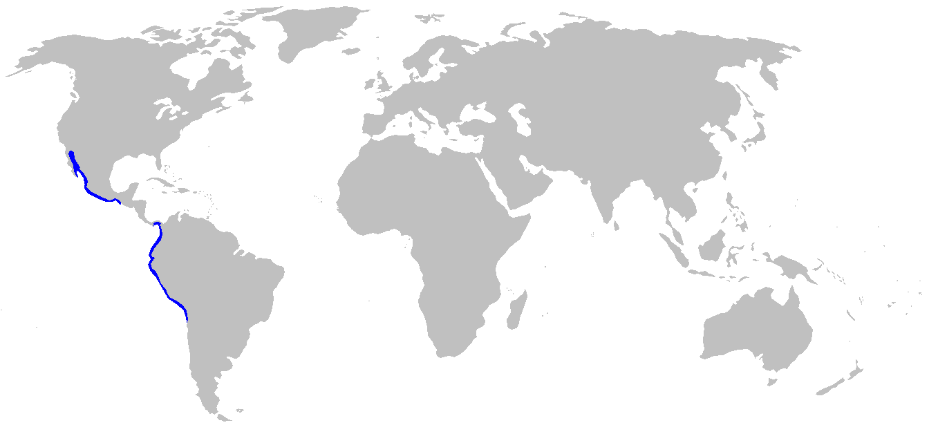 Distribution map for Heterodontus mexicanus